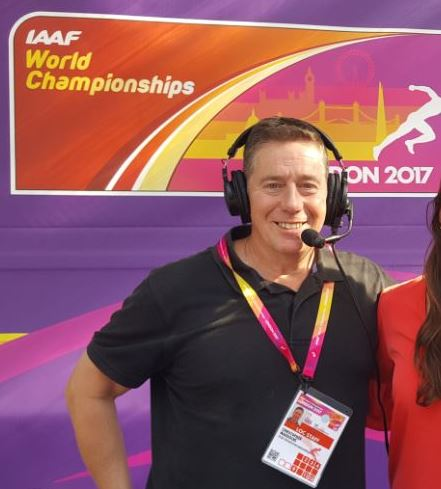 World Athletics Championships 2017. Expert analyst co-commentator during men & women's 20kms and 50kms race walks on the Mall, London